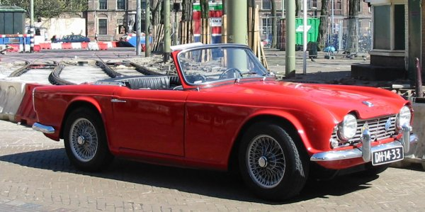 Triumph car in The Hague in front of the broken up tram line.